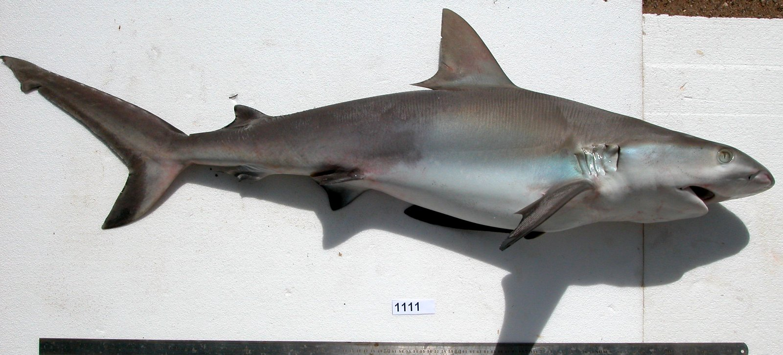 Carcharhinus amblyrhynchos. Body, lateral view. Locality: near Récif Le Sournois, off Nouméa, New Caledonia. Total Length 1,111 mm, Weight 8,800 grams, Date 24-05-2004. This is the specimen in which the parasitic trichosomoidid nematode species Huffmanela lata was found for the first time